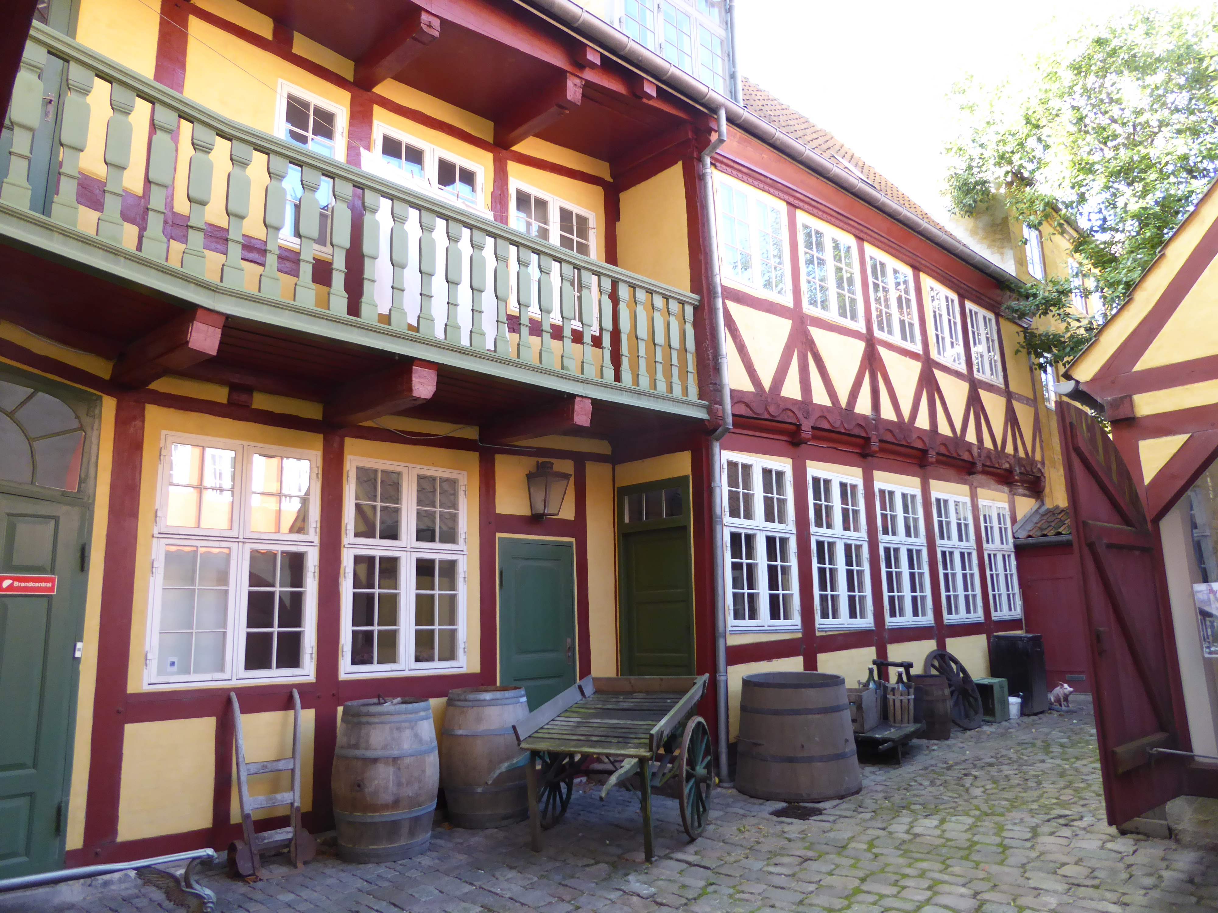 Skibsklarerergaarden in Helsingør, Denmark